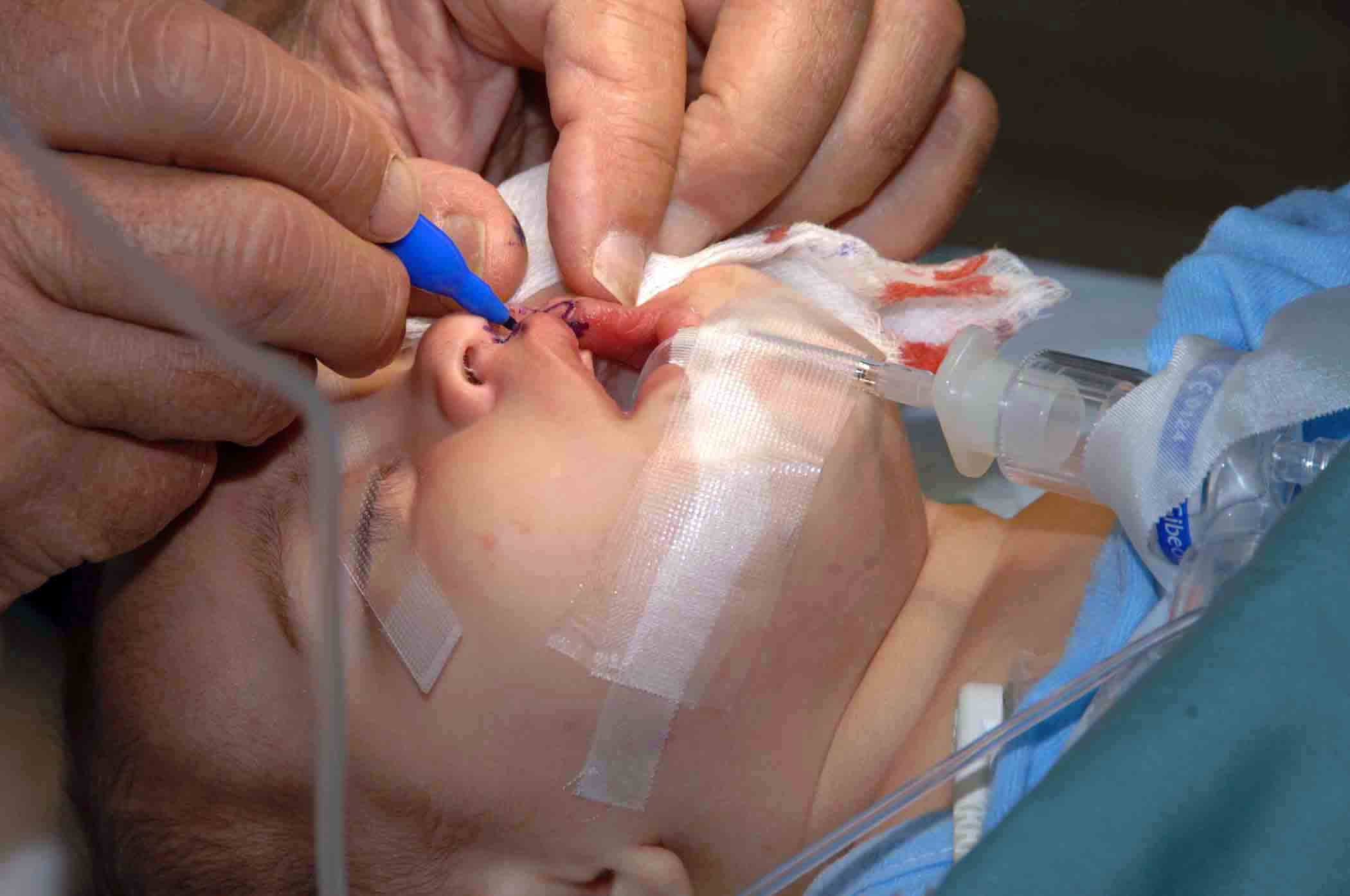 CORINTO, Nicaragua (July 4, 2009) Operation Smile staff member is Dr. Hal Rosenfeild begins reconstructive surgery for a cleft lip on a three-month-old infant aboard the Military Sealift Command hospital ship USNS Comfort (T-AH 20) during a medical service project. Operation Smile is a worldwide children's medical charity working with U.S. military personnel, other non-governmental organizations, foreign nationals, and host nation personnel aboard Comfort during Continuing Promise 2009. (U.S. Army photo by Spc. Nashaunda Tilghman/Released)